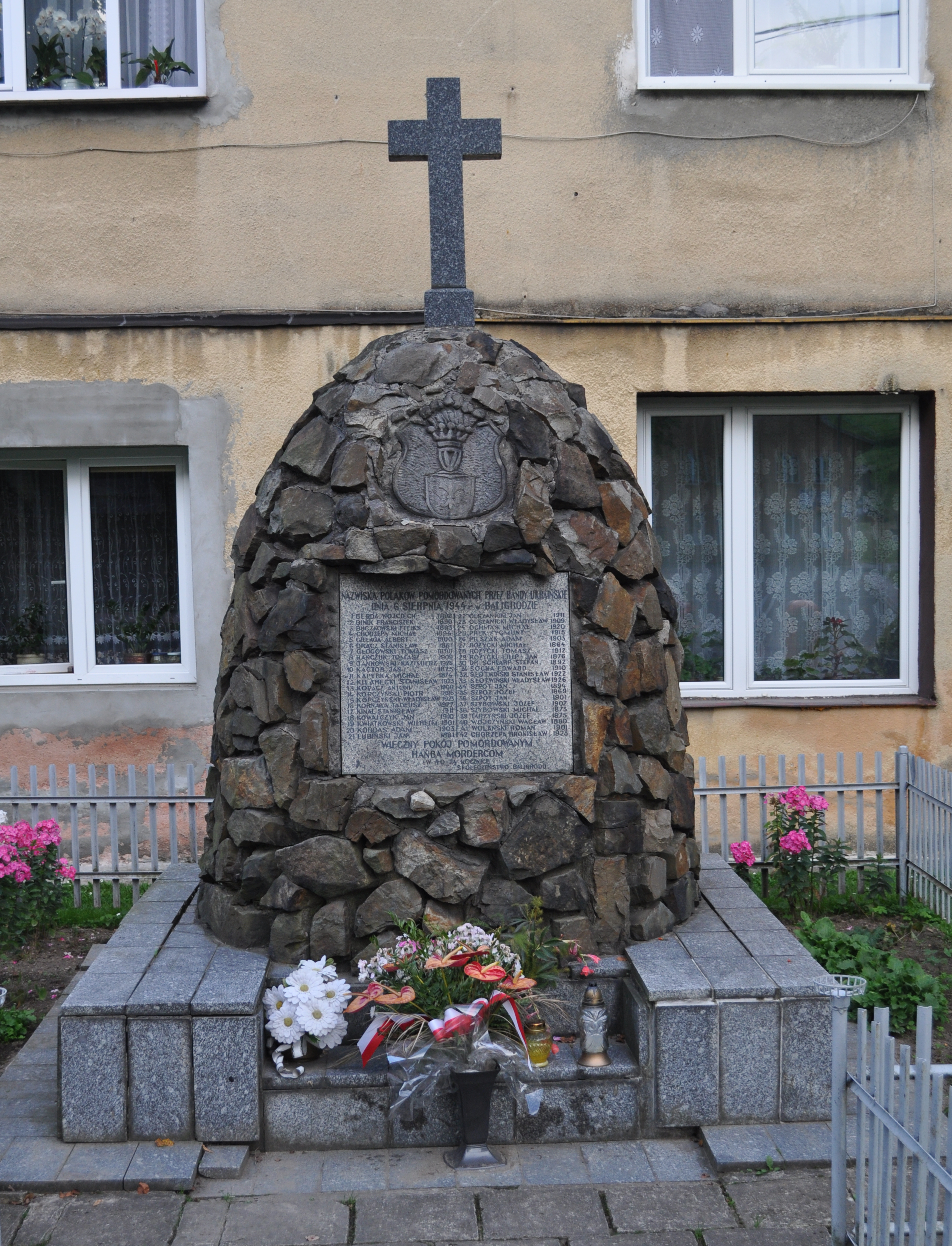 Monument in Baligród